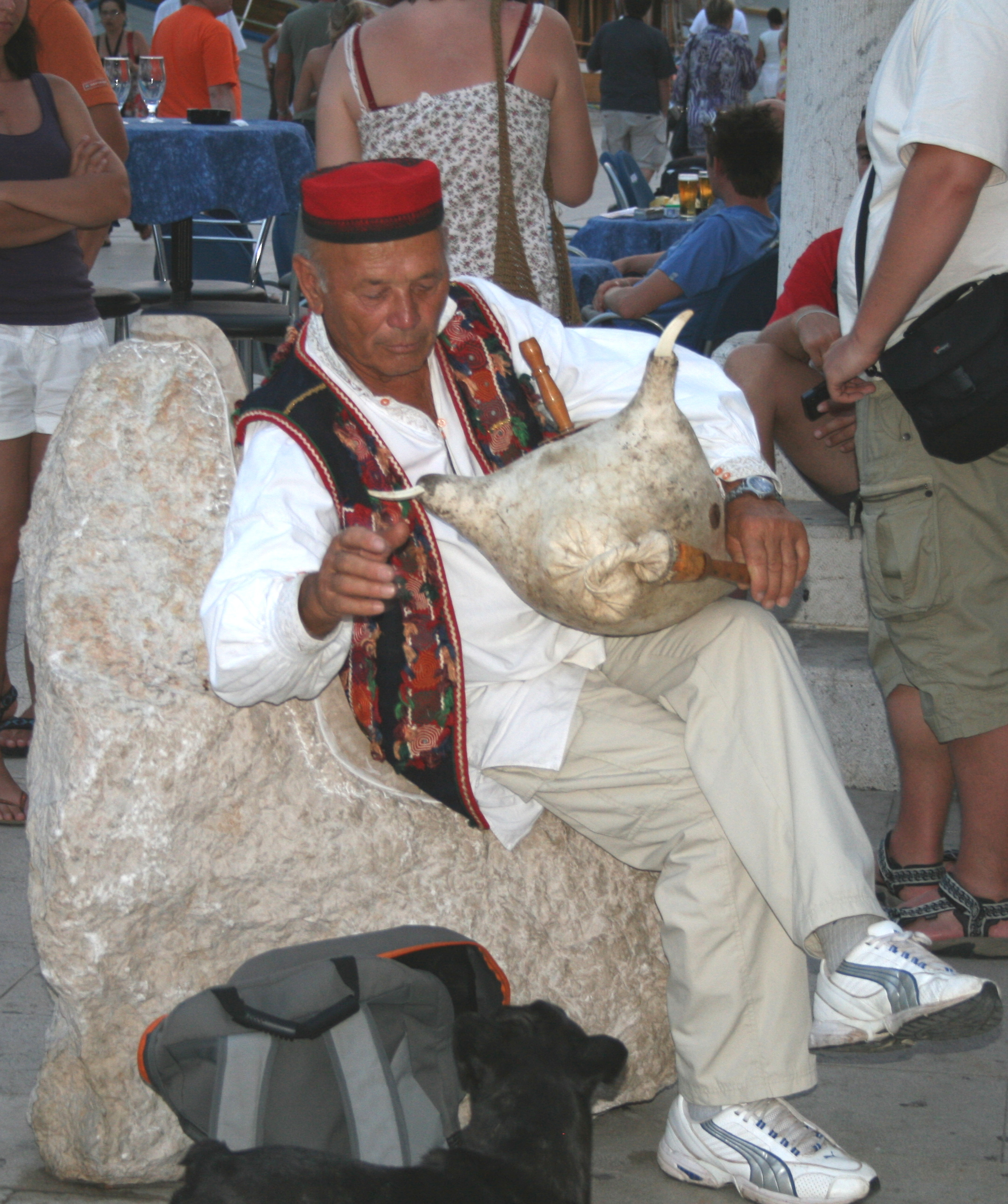 Piva (or mih) player -a traditional type of Croatian bagpipes- in Trogir (Dalmatia; Croatia)